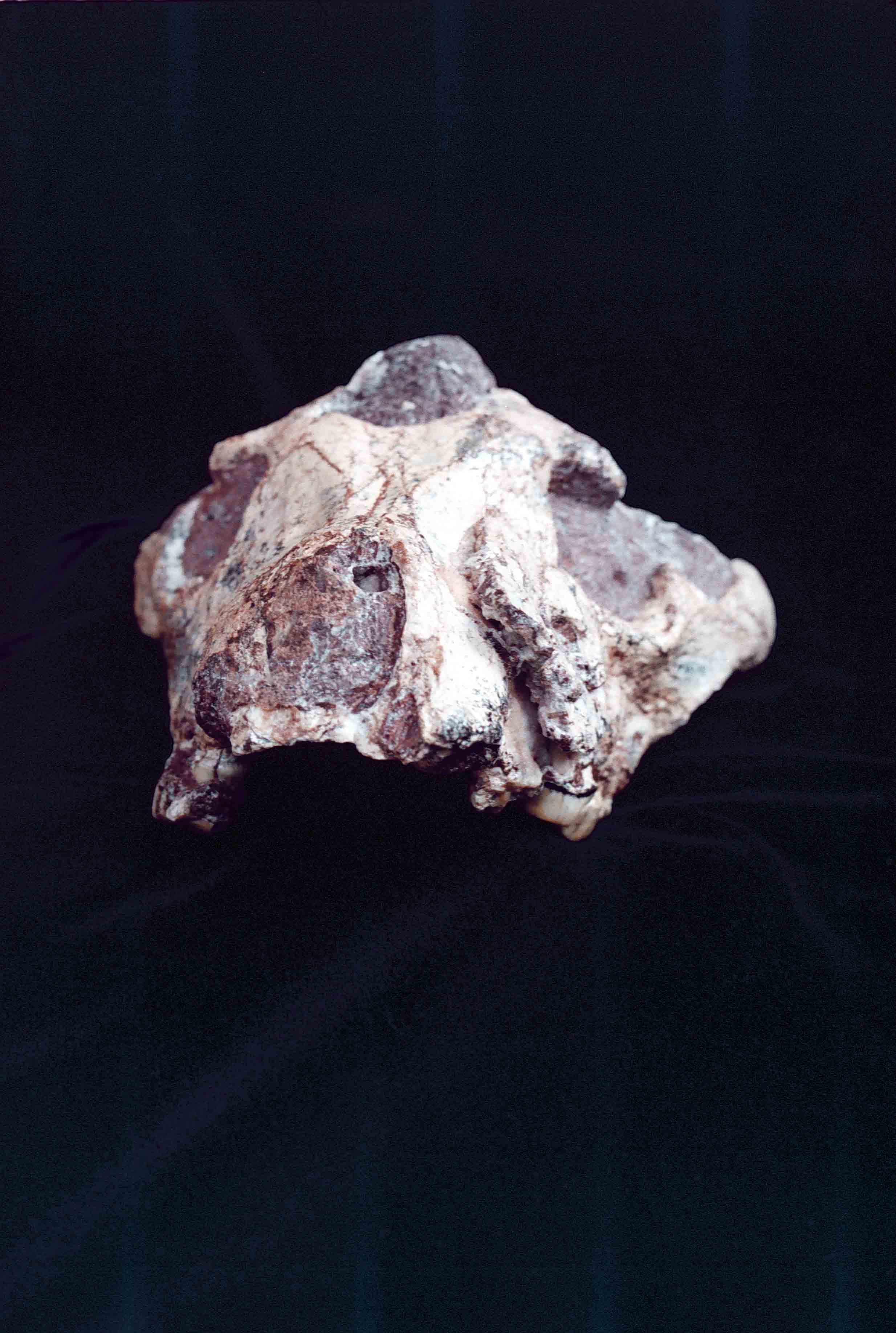 Giant hyena from Gladysvale